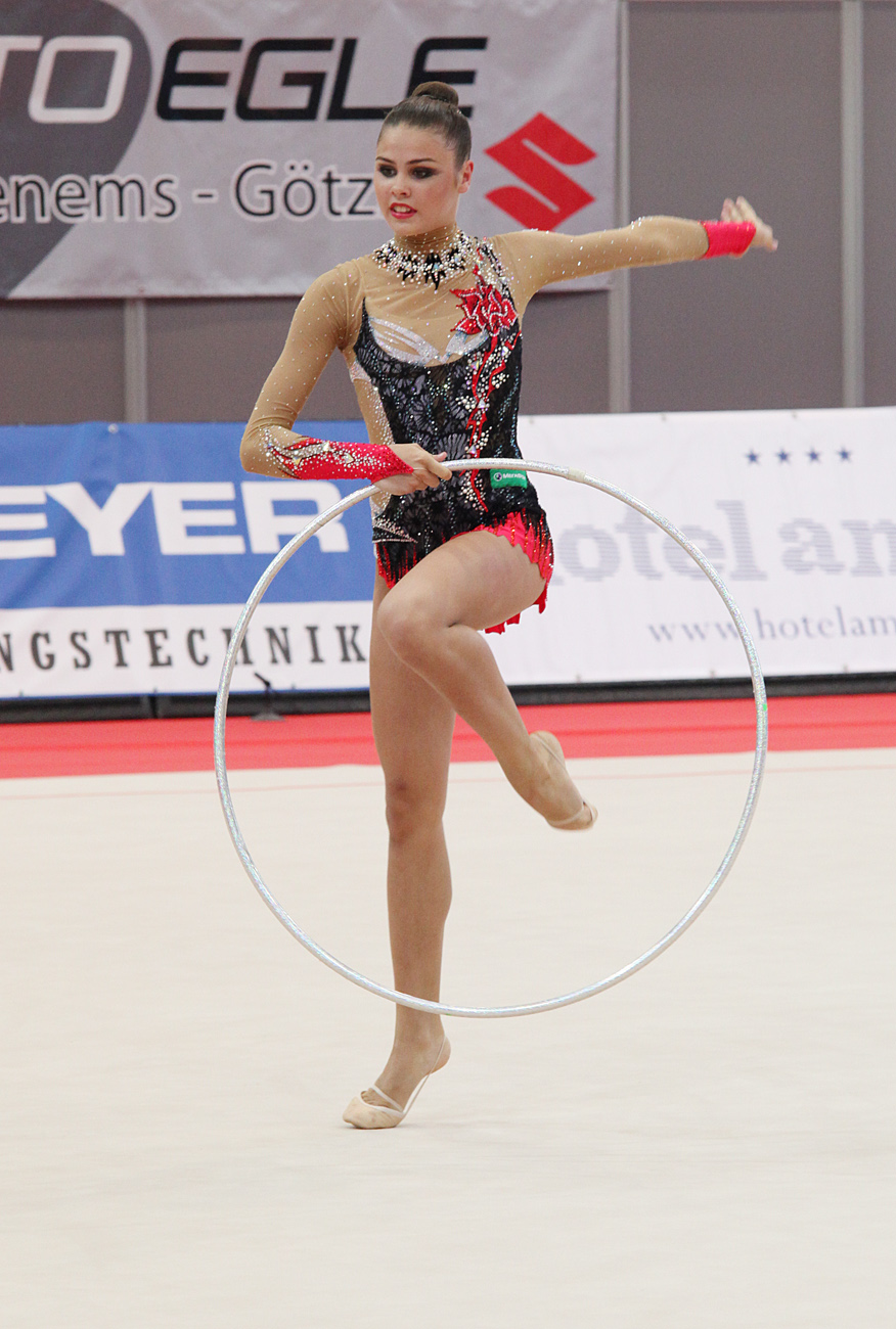 Grand Prix Rhythmic Gymnastics in Austria (Hard) 2012. Alexandra Merkulova RUS